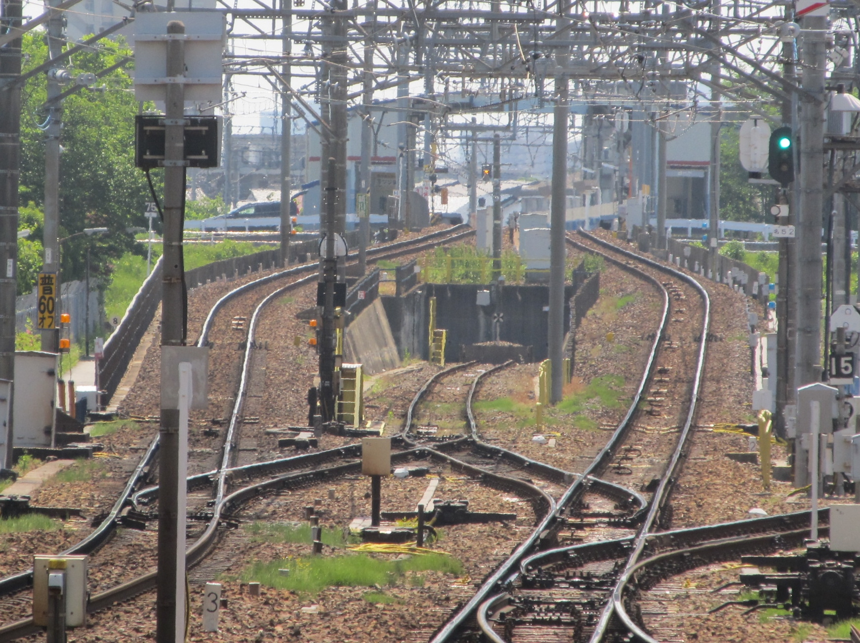 Nagoya Railroad Sukaguchi Station Track No.5 (Sidetrack)